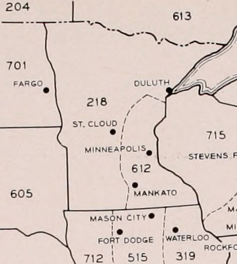 Area code 218 and its neighbours